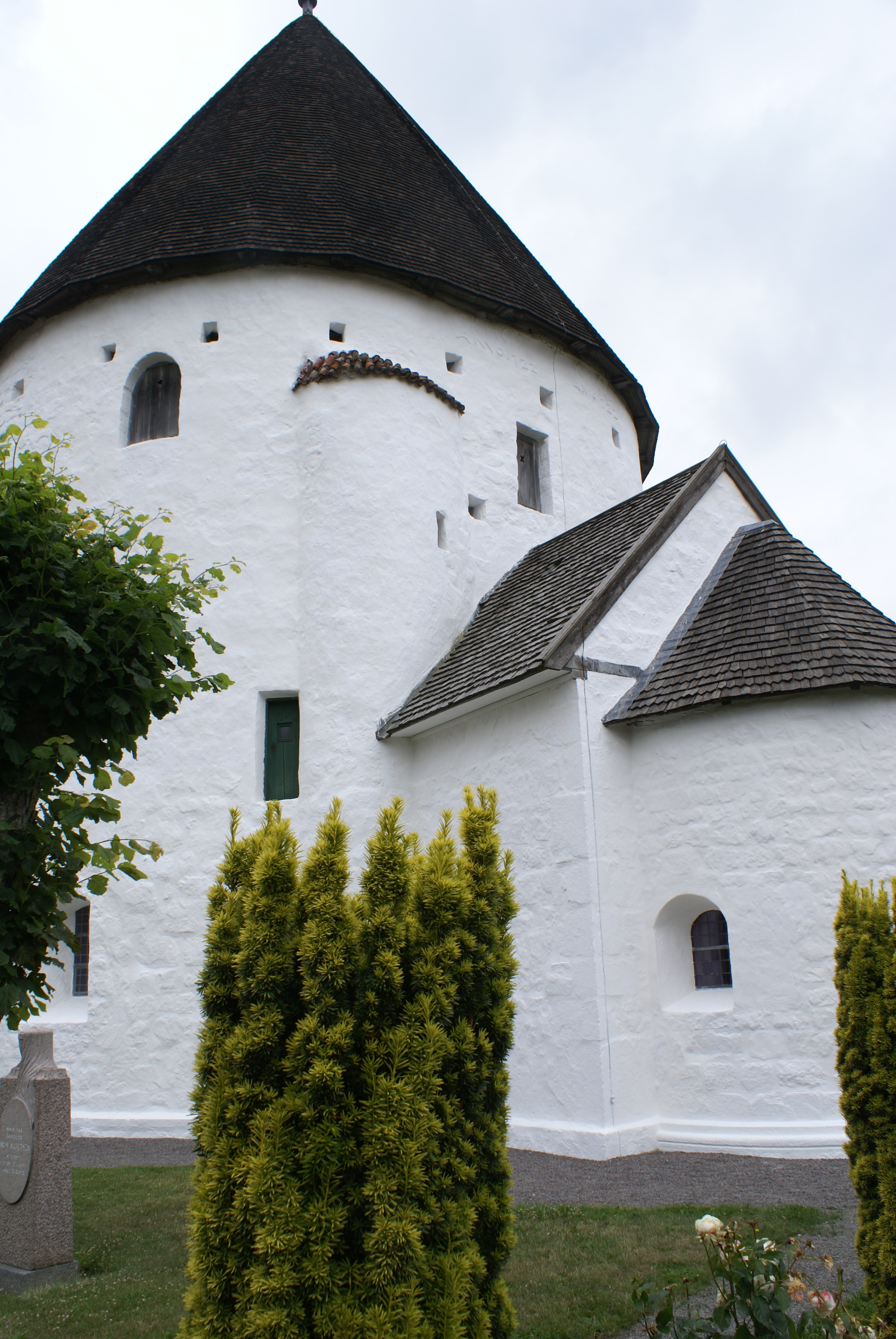 Saint Ols Church, Bornholm, Denmark